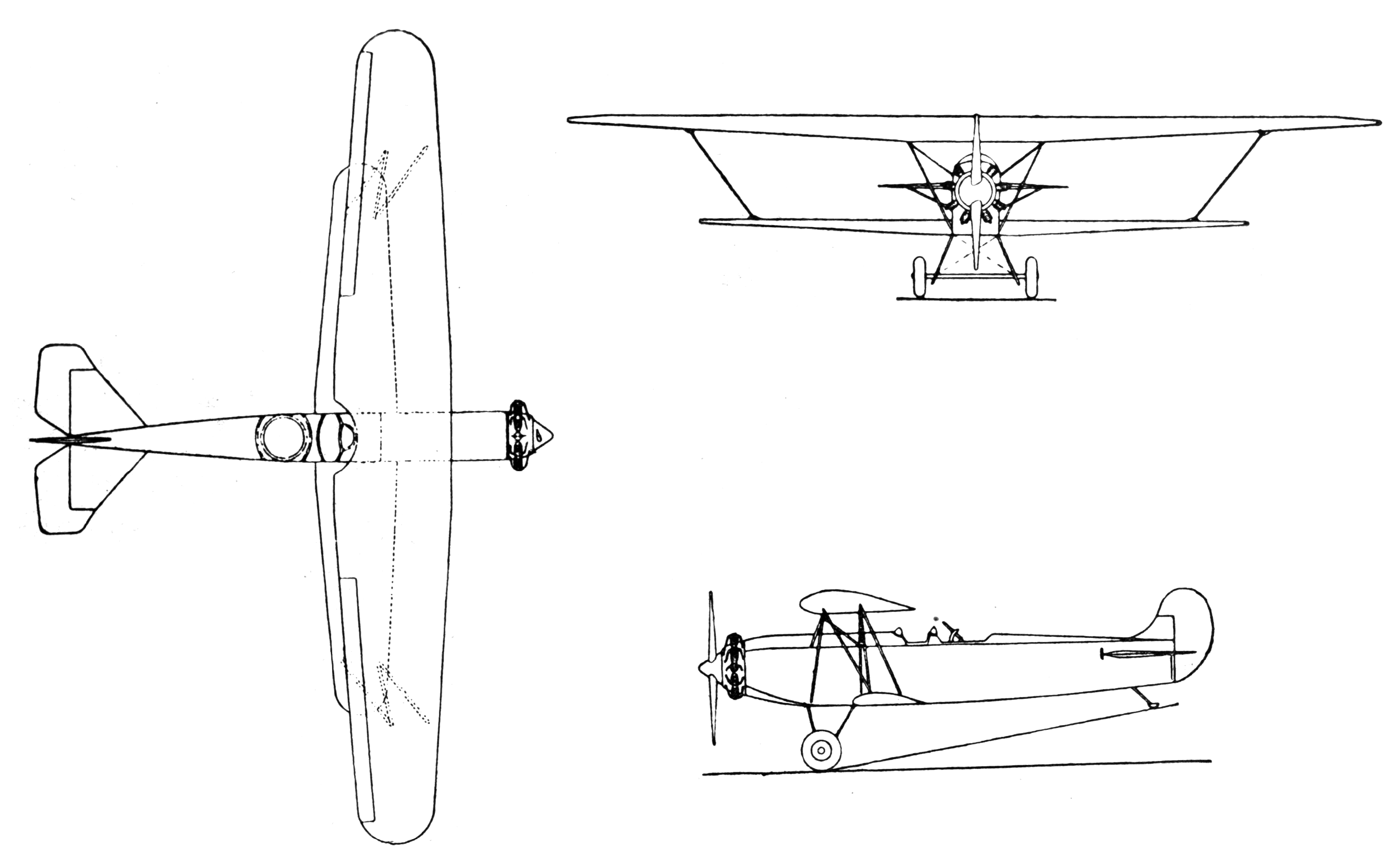 Romeo Ro.1 3-view drawing from L'Air February 1,1927